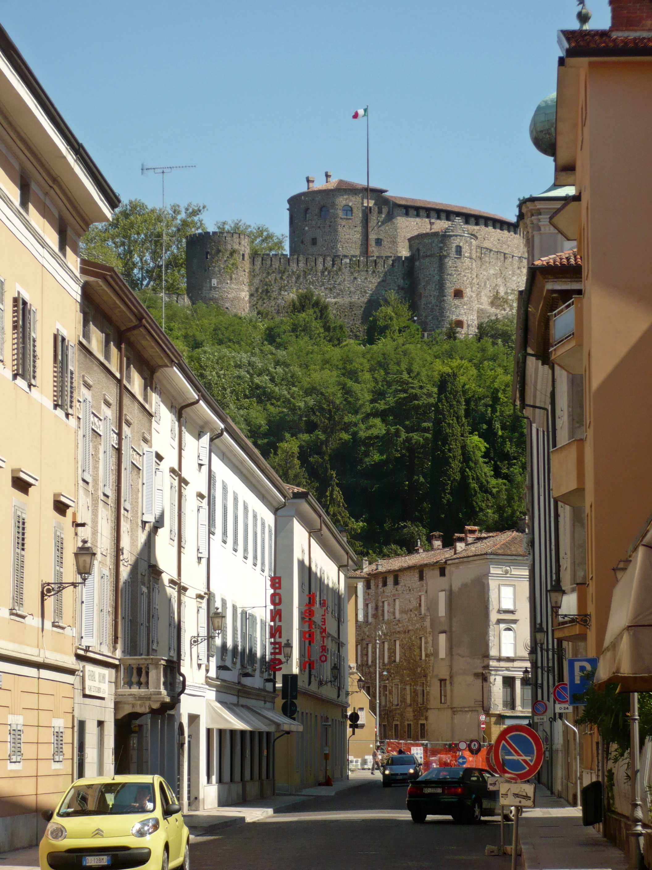 Gorizia - Gorica, Italy